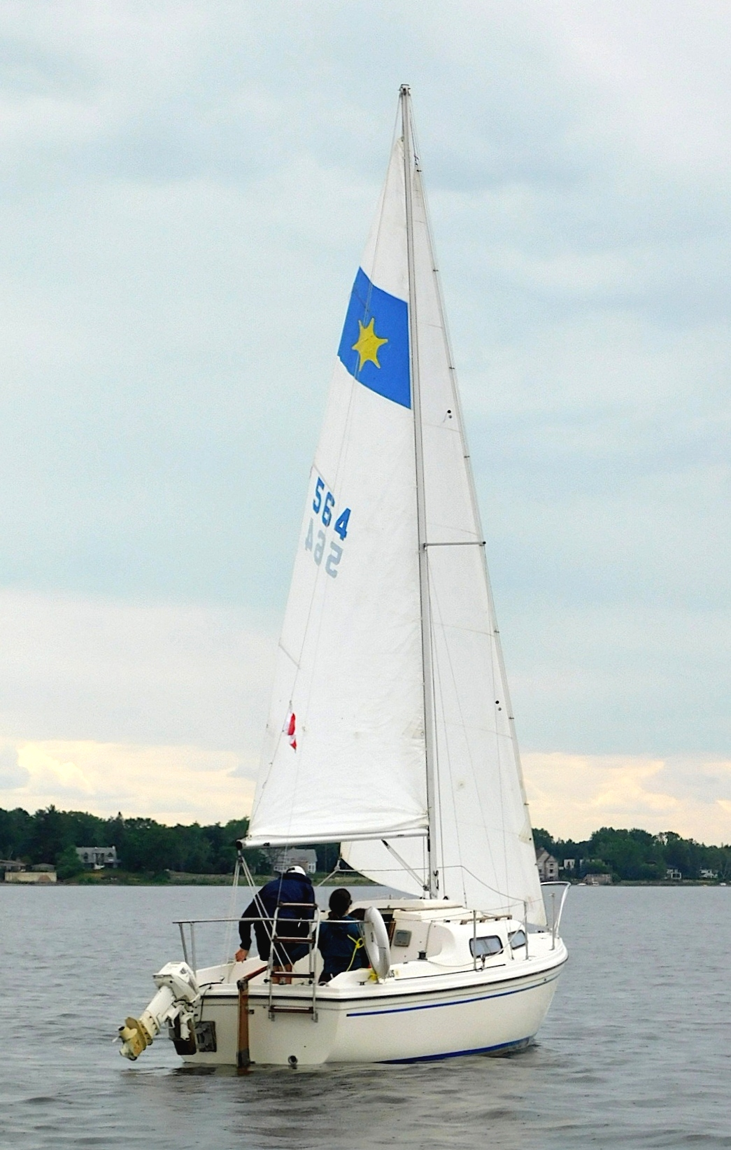 A Sirius 21 sailboat.